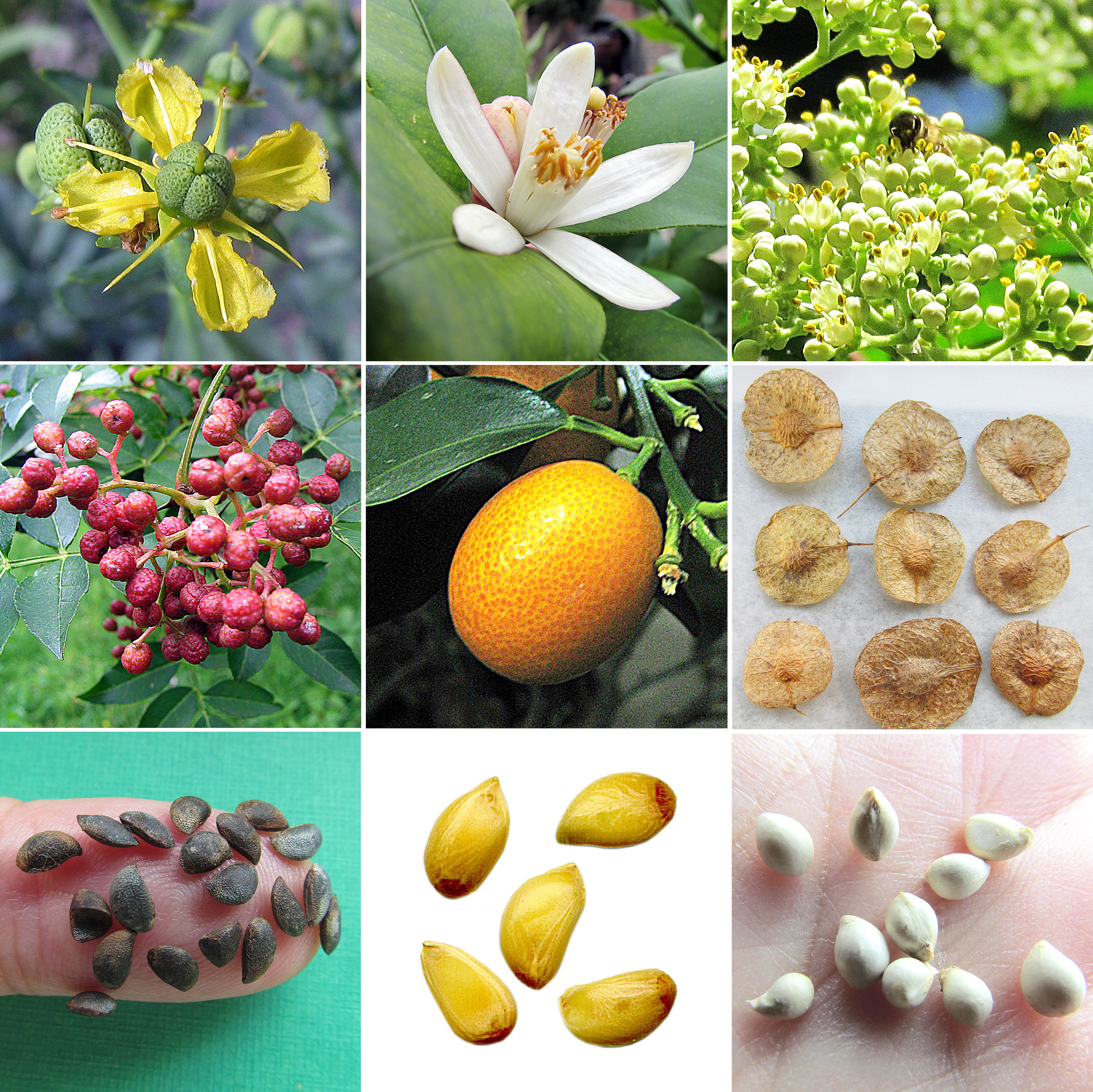 Rutaceae flowers, fruits and seeds